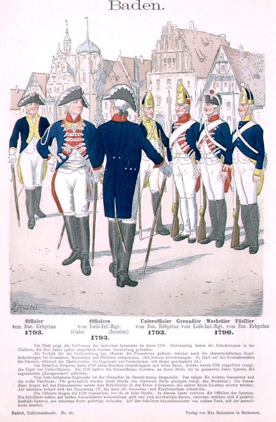 Baden: Leib-Regiment und Bataillon Erbprinz 1790 und 1793